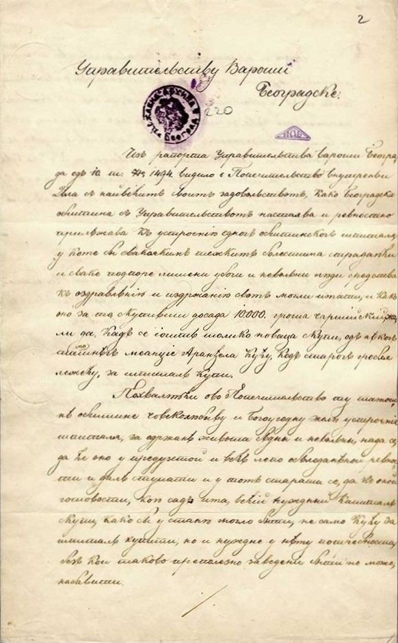 A document on the construction of the City hospital and its garden by the charitable contribution of Belgrade citizens, Belgrade 1840. Catalog number: UGB, 1860, f-IB-P-622